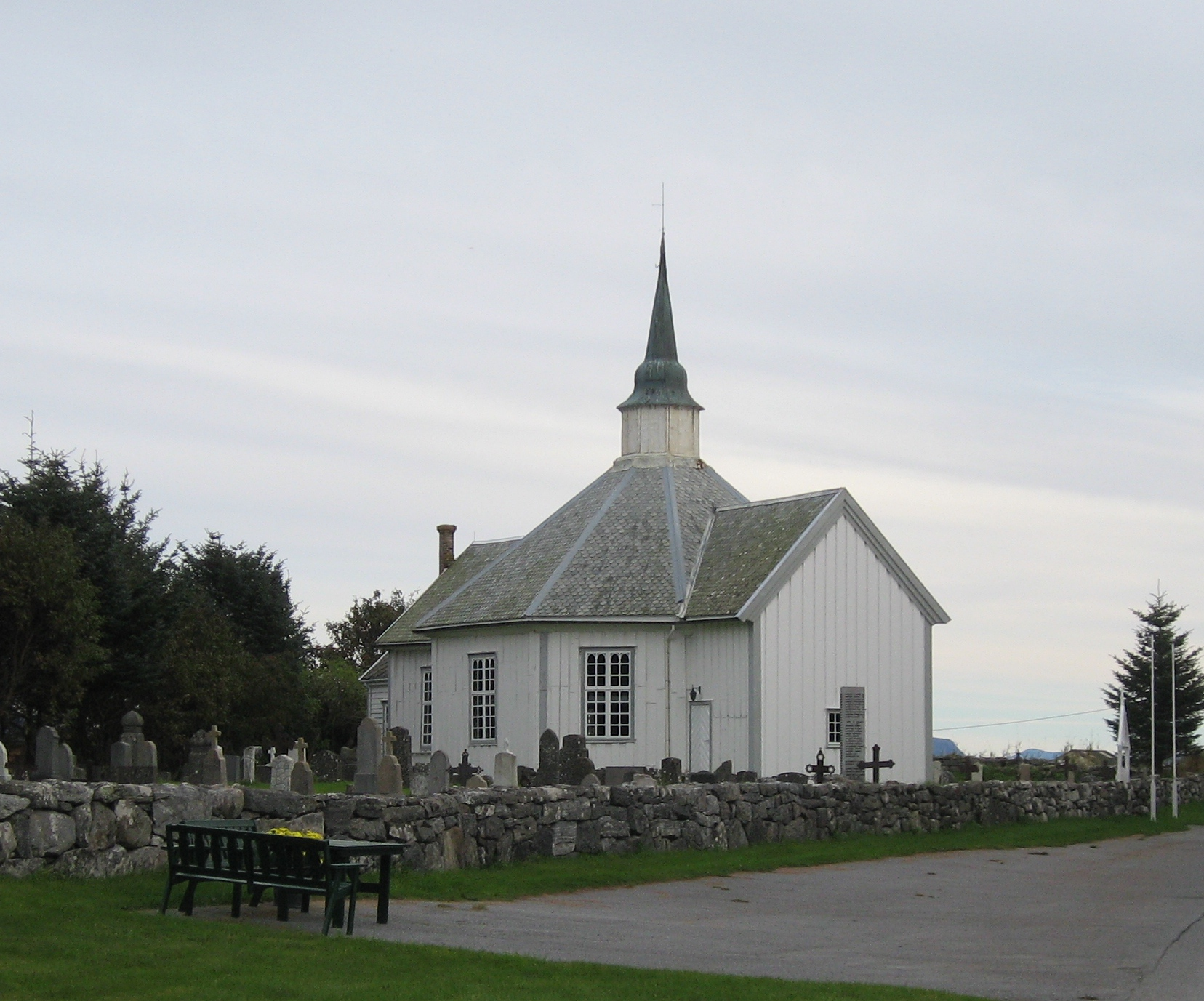 Sandøy kirke. Wooden church located on the island Sandøya in Møre og Romsdal, Norway. Built in 1812.